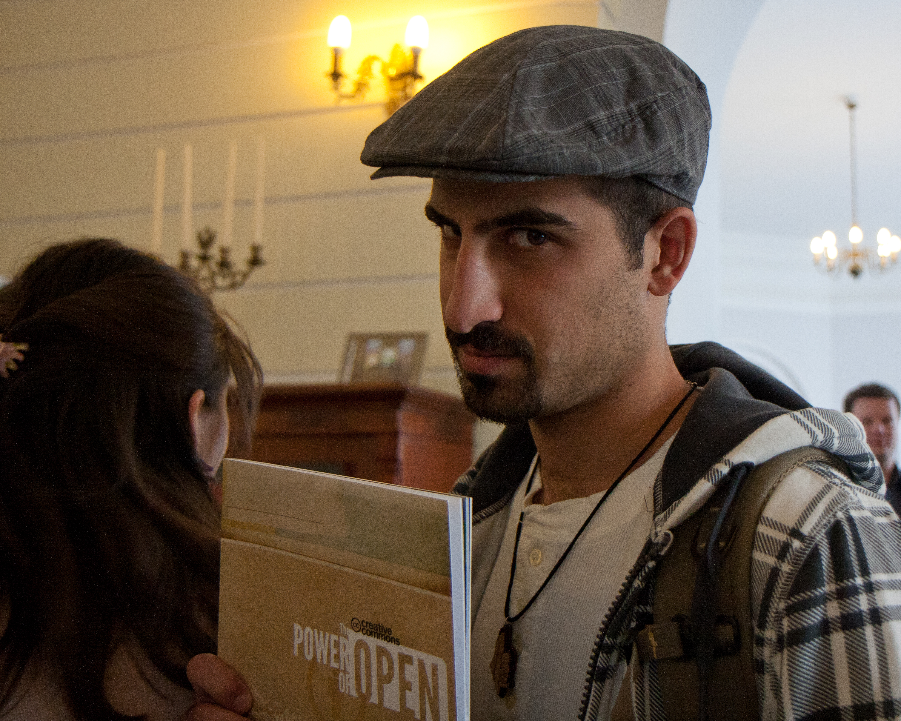 Creative Commons Global Summit 2011